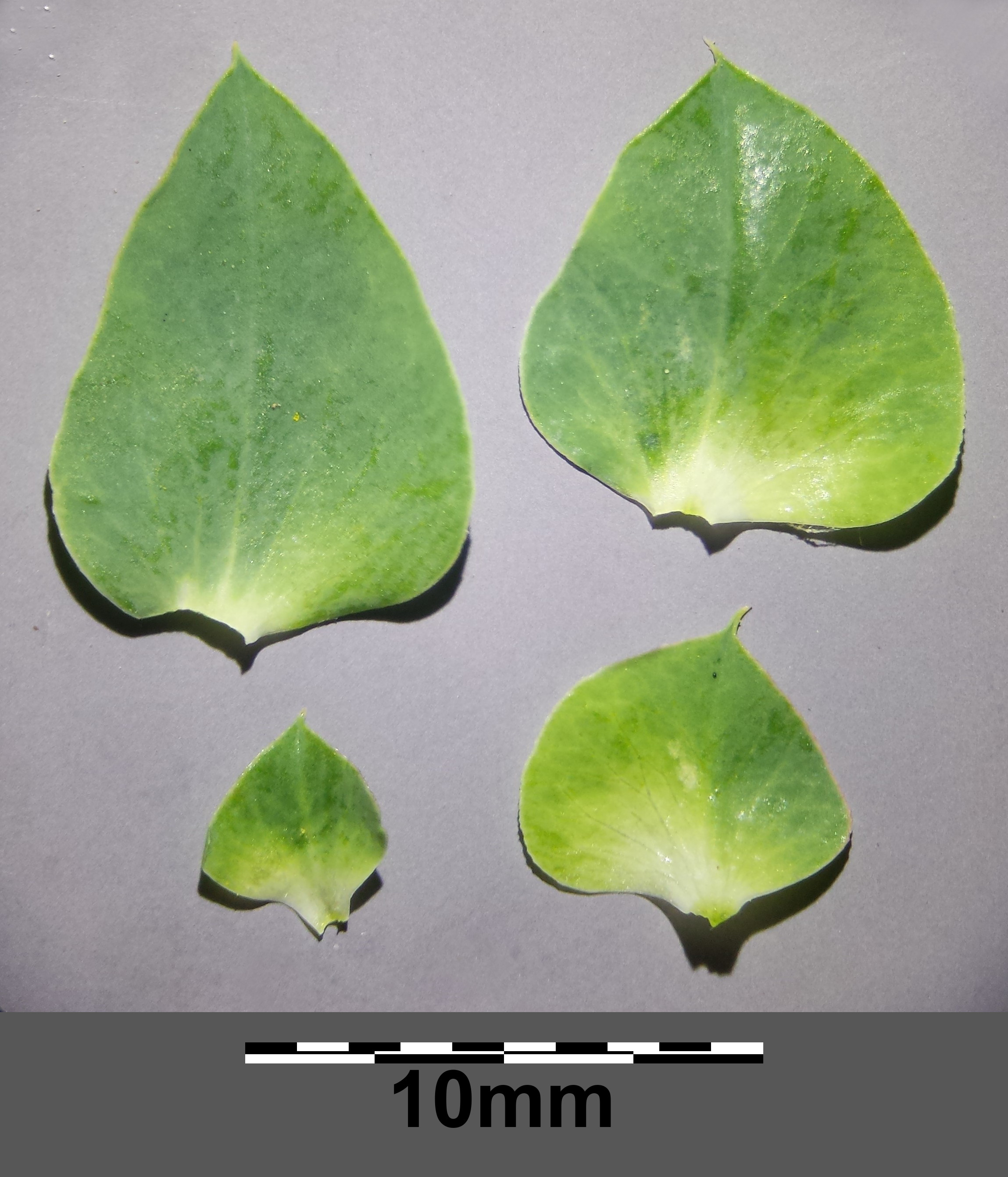 Raylet-leaves Taxonym: Euphorbia falcata (s. str.) ss Fischer et al. EfÖLS 2008 ISBN 978-3-85474-187-9 Location: next to Gebmannsberg, district Korneuburg, Lower Austria - ca. 300 m a.s.l. Habitat: field